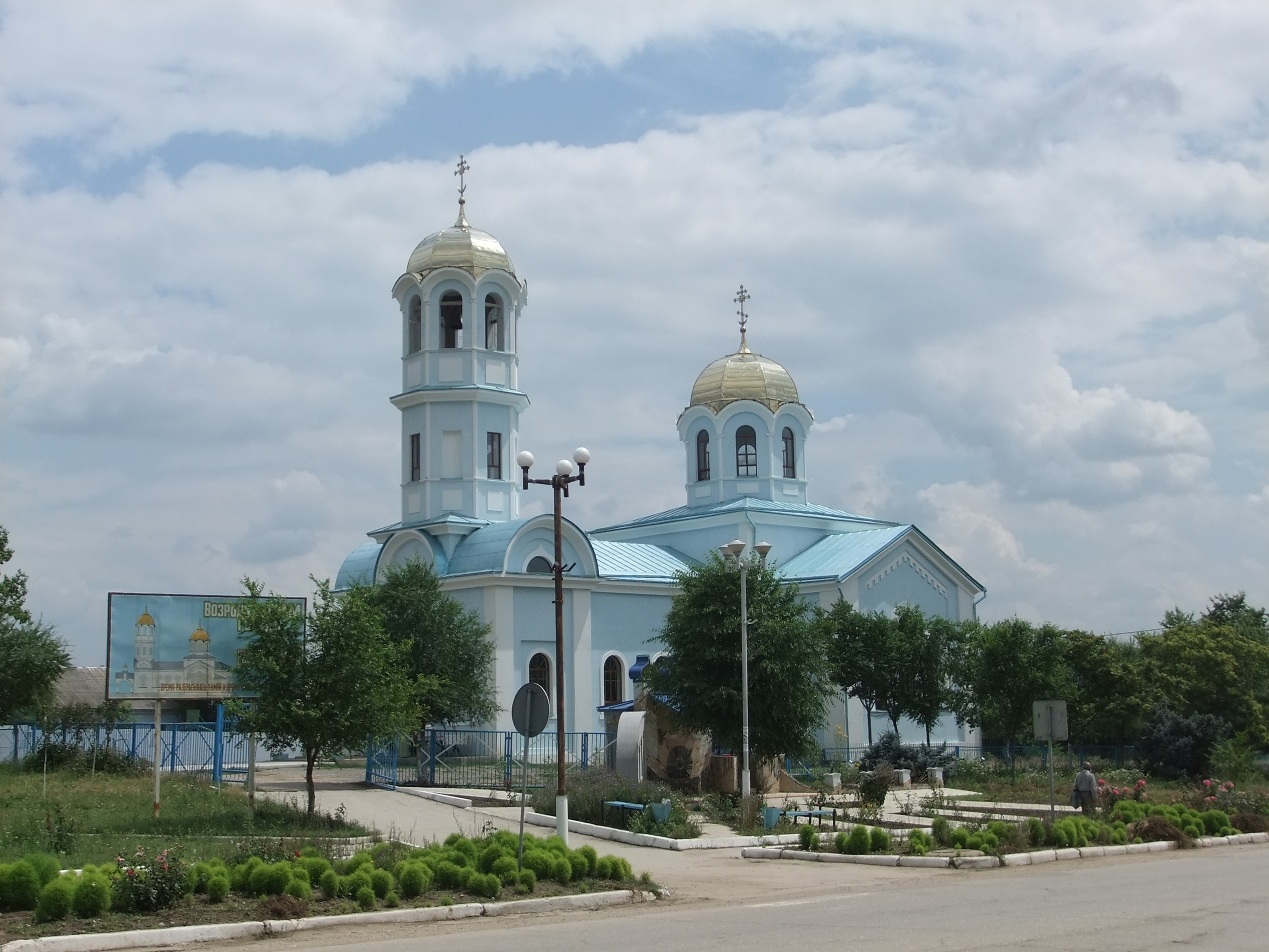 Ceadîr-Lunga Church of Icon Our Lady of Kazan